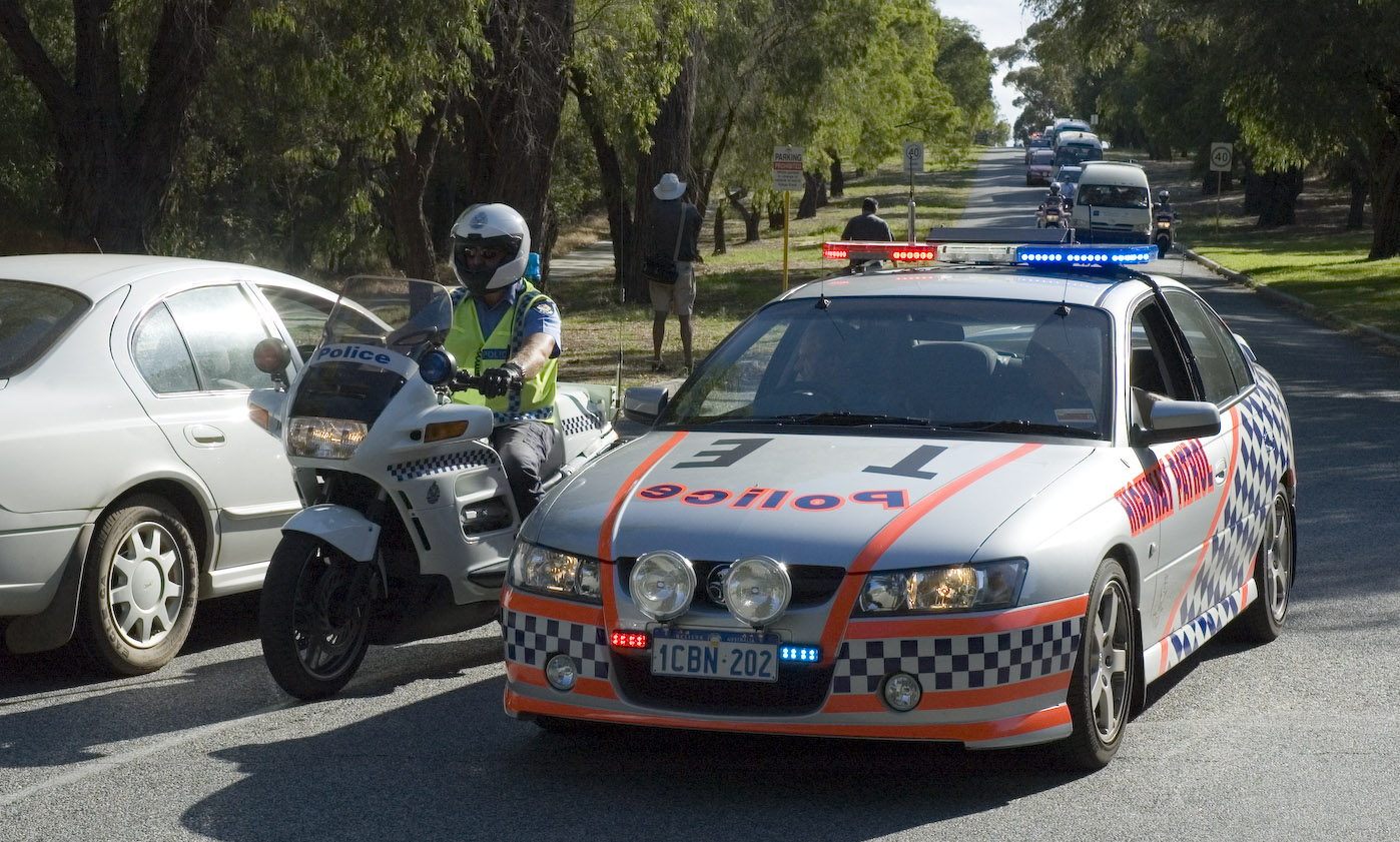 Western Australia Police Traffic Enforcement Group sedan (TE204) and District motorbike, with "POLICE" in mirror writing ("ECILOP").